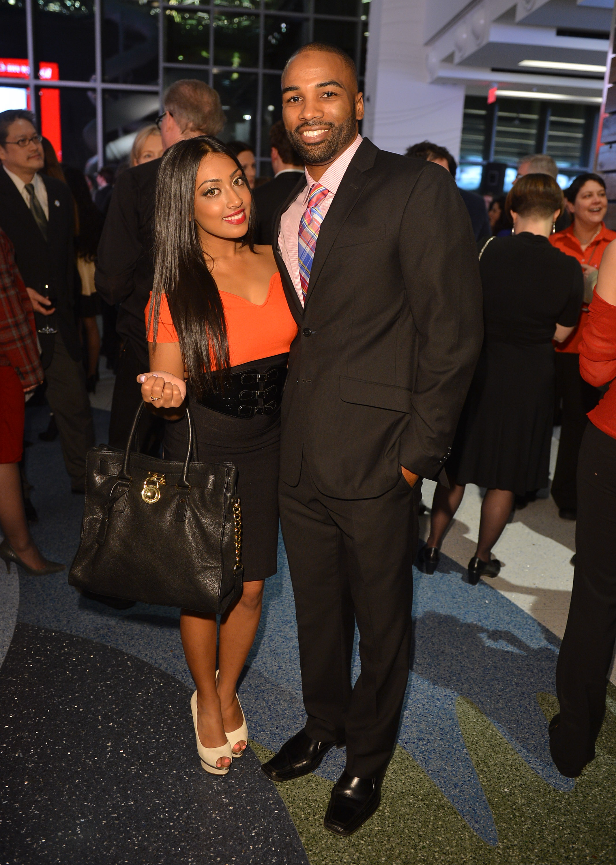 Canadian Screen Award nominees Melinda Shankar (How to be Indie 2) & Andra Fuller (LA Complex). On March 1, 2013, the CFC, in support of the Academy of Canadian Cinema & Television (Academy), celebrated Canadian talent at the Canadian Screen Awards Nominee Reception. Academy's new Canadian Screen Awards recognize excellence in film, television and digital media productions. This marked the inaugural year for the Canadian Screen Awards.